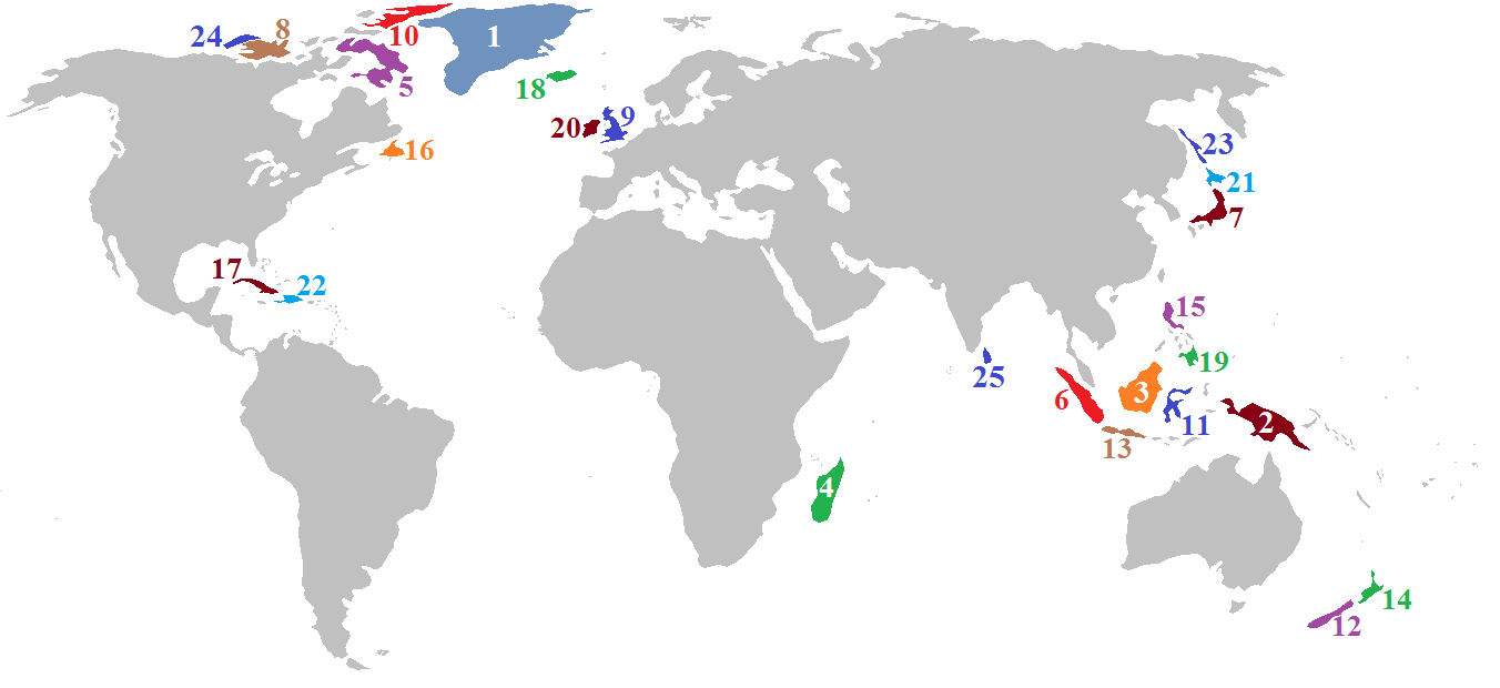 The relative position of the 25 largest islands on Earth (Australia is not considered as an island). The number near (or on) each island indicates its rank by area(e.g. the largest island Greenland is indicated as 1). Greenland New Guinea Borneo Madagascar Baffin Island Sumatra Honshu Victoria Island Great Britain Ellesmere Island Sulawesi South Island Java North Island Luzon Newfoundland Cuba Iceland Mindanao Ireland Hokkaido Hispaniola Sakhalin Banks Island Sri Lanka